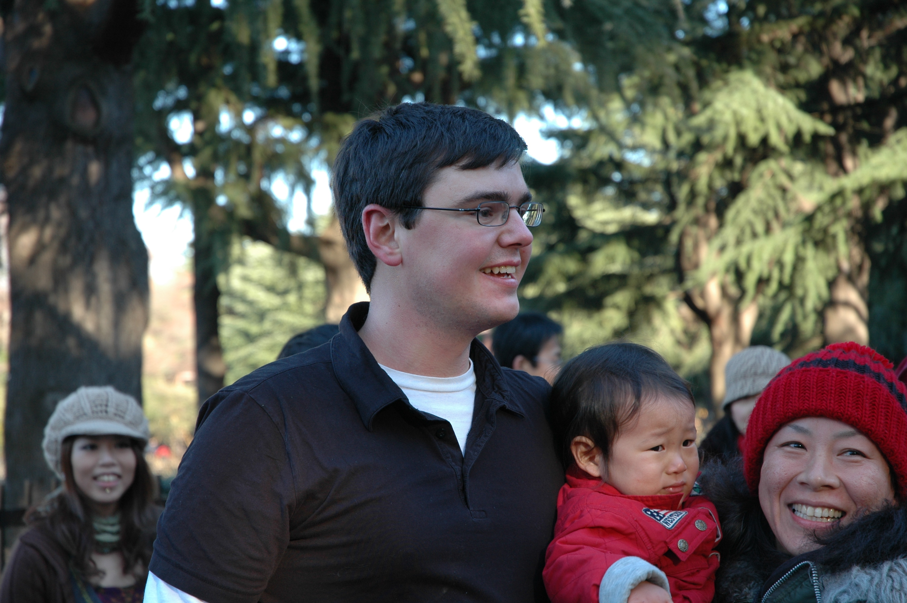 A picture of Matt Harding at Yoyogi Park in Shibuya, Tokyo, Japan.